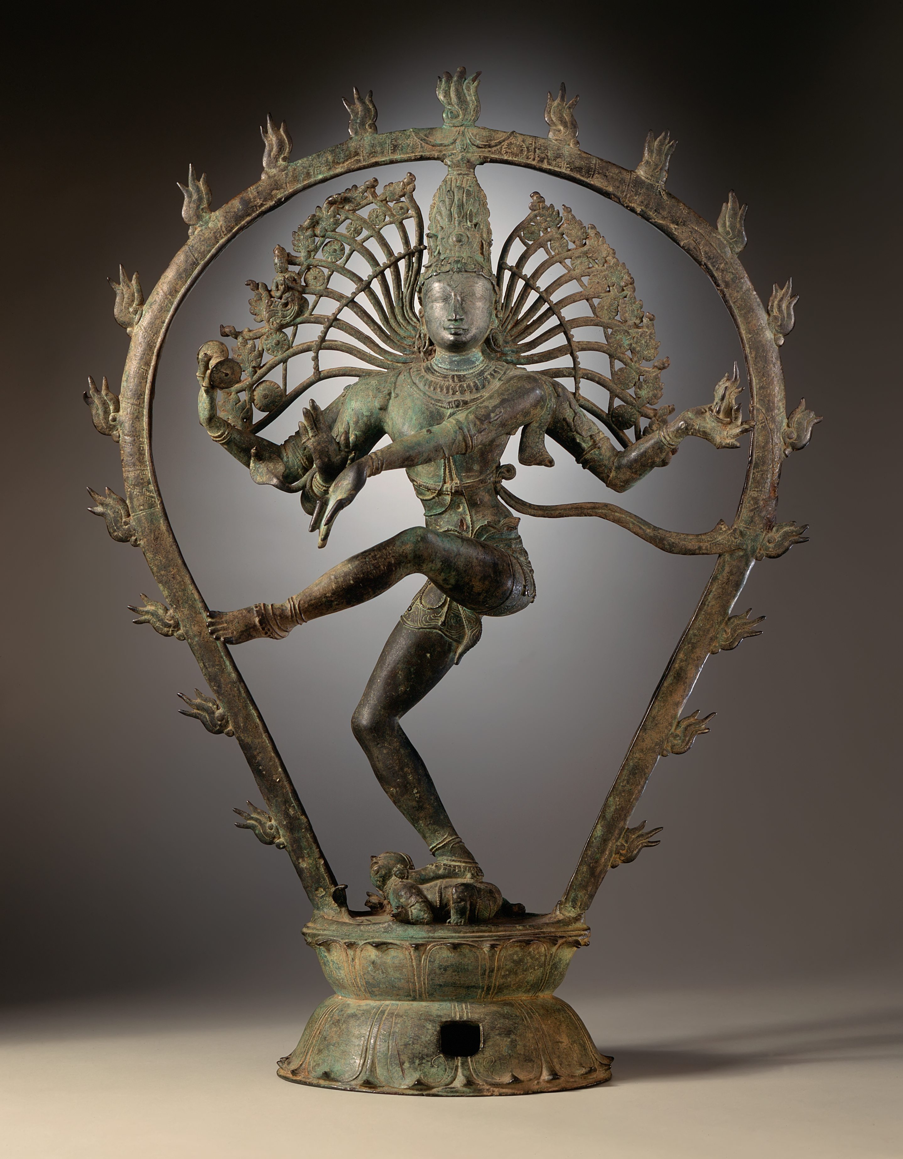 Nataraja from Tamil Nadu, India. Chola Dynasty